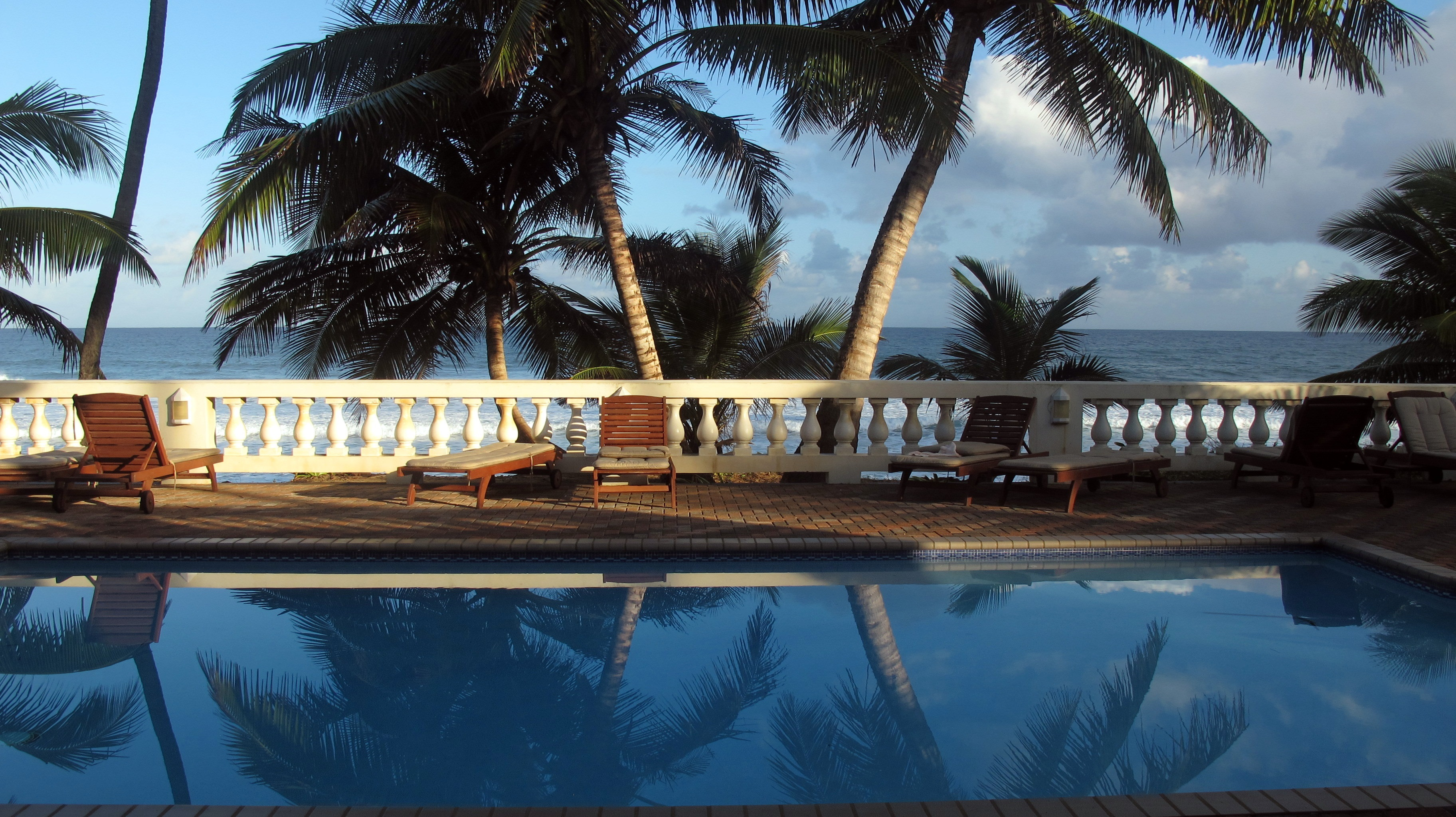 Casa Isleña Inn, Rincón, Puerto Rico